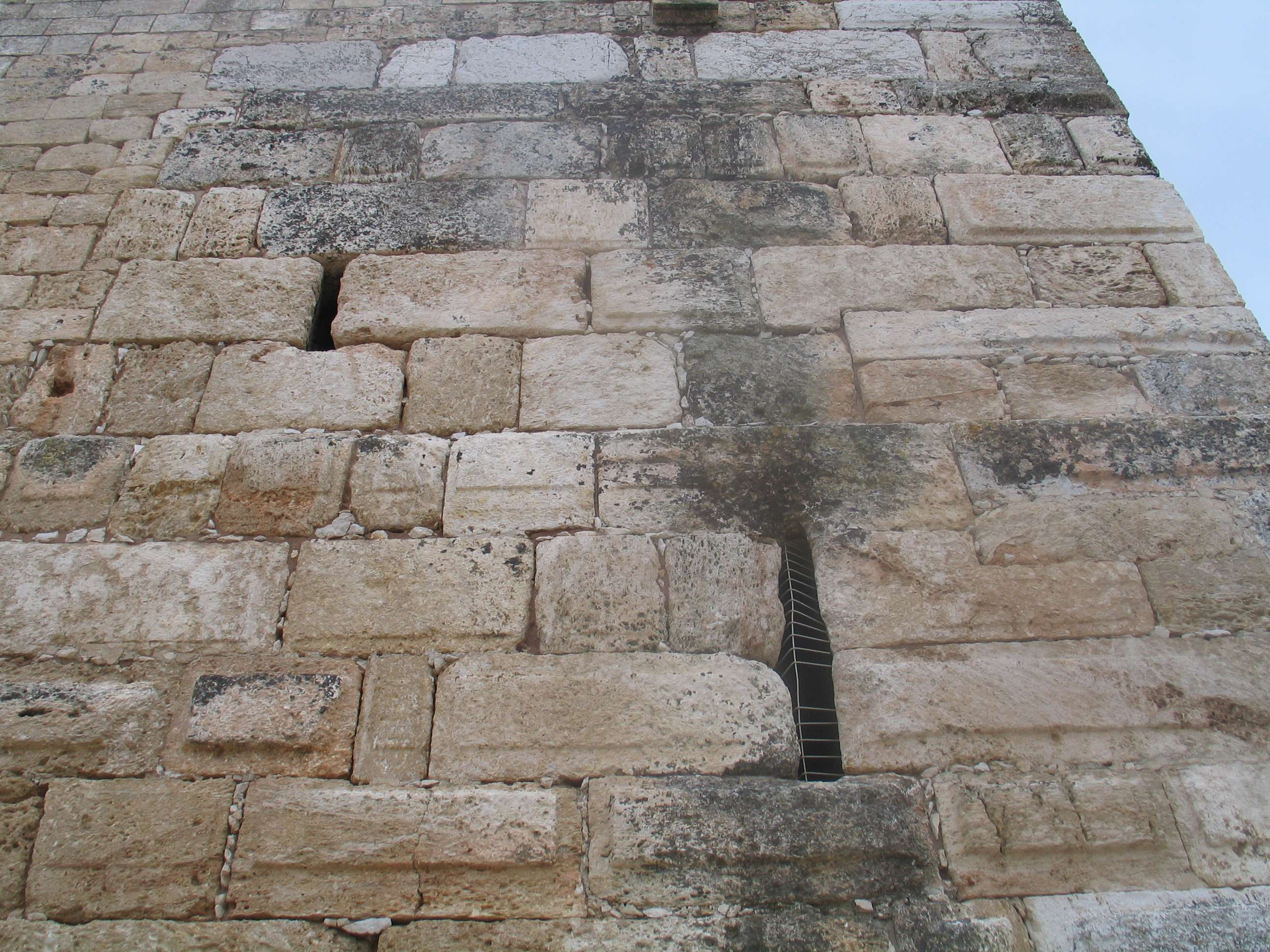 Crusader tower in Tsipori, Israel.